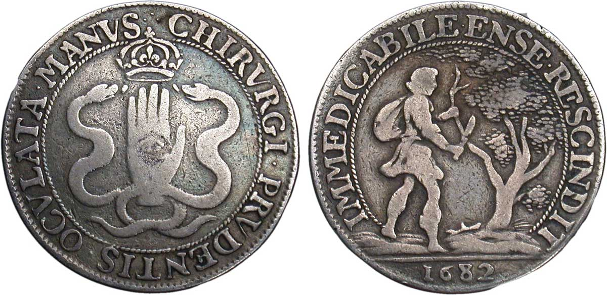 Corporation des chirurgiens et barbiers, 1682